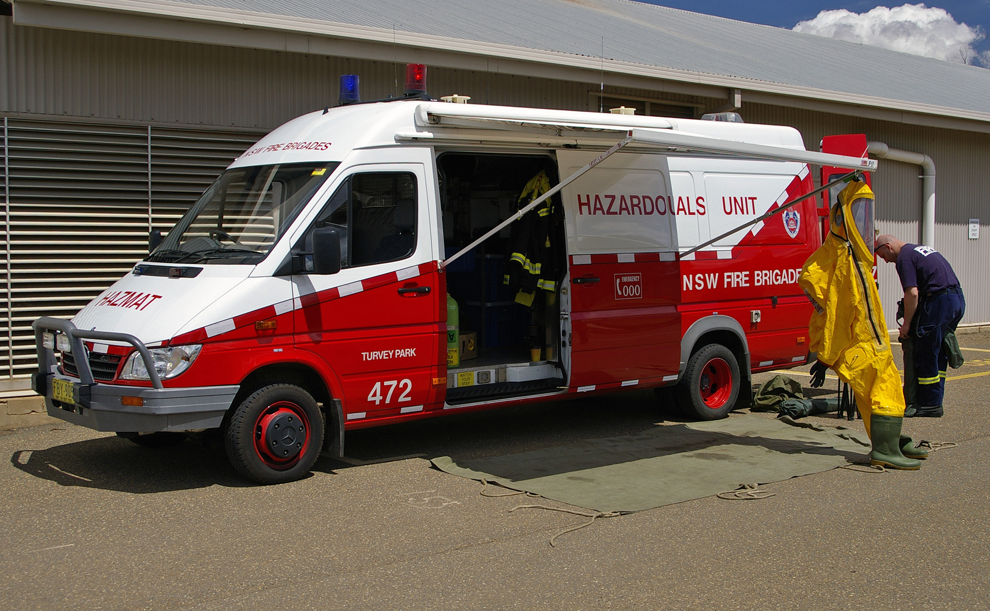 New South Wales Fire Bridges HAZMAT Unit.